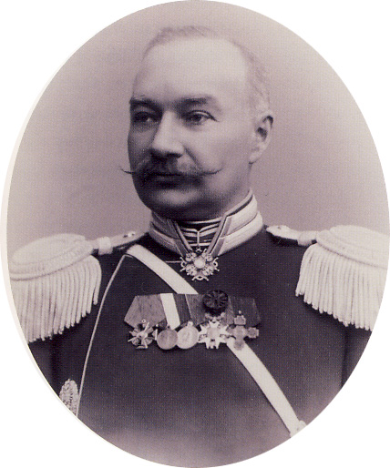 August Langhoff, Minister-Secretary of State for Finland.